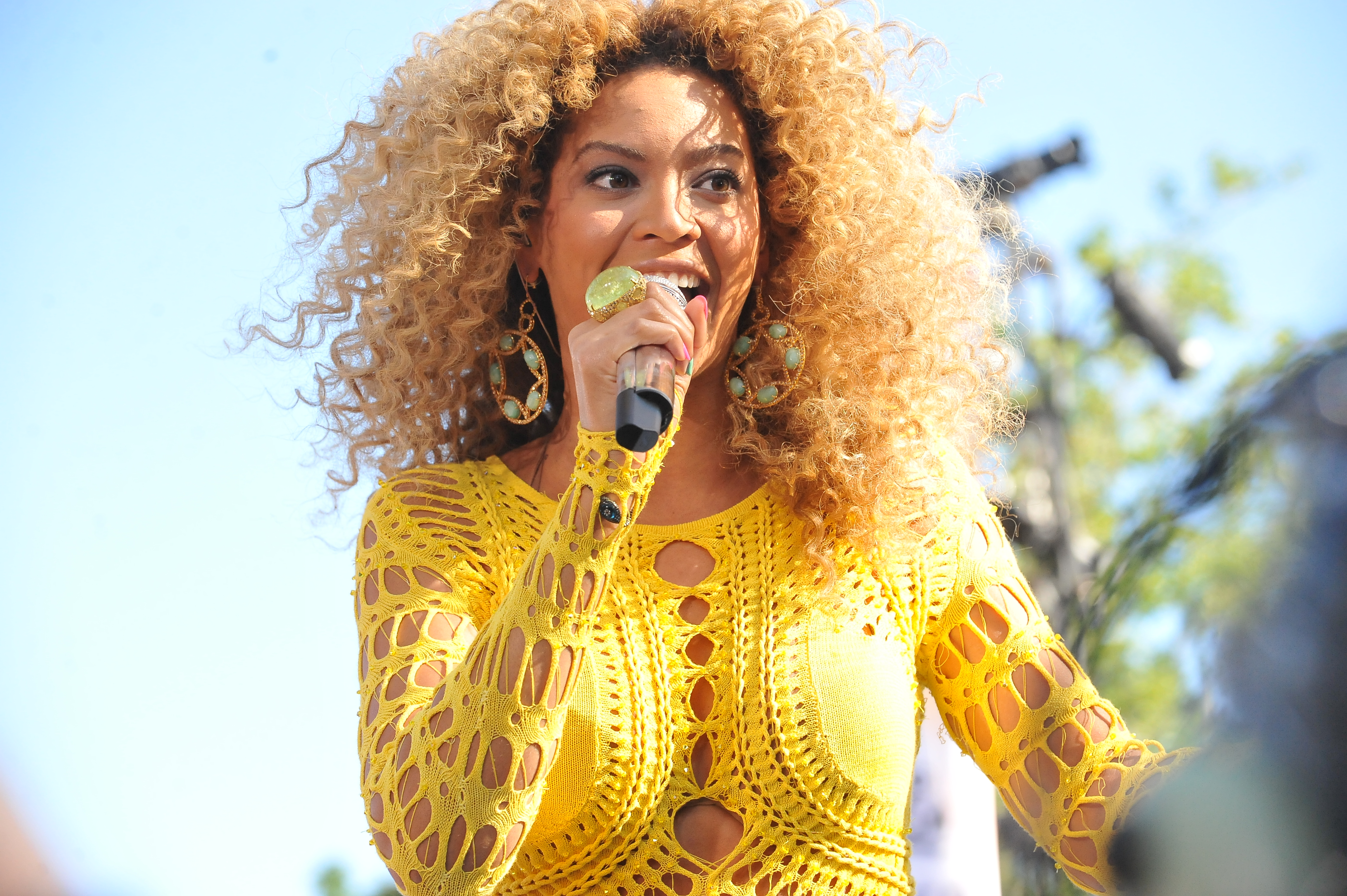 BEYONCE CONCERT IN CENTRAL PARK 2011 / Good Morning America's Summer Concert Series - Central Park, Manhattan NYC - 07/01/11